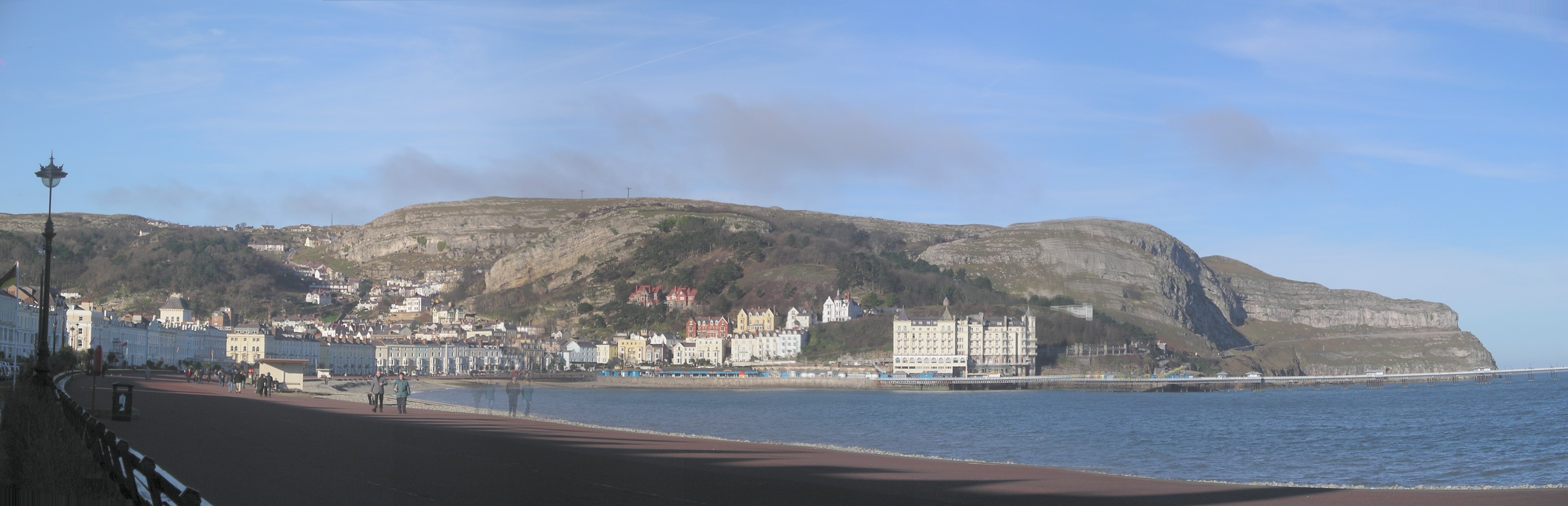 Great Orme Panorama from Llandudno promenade